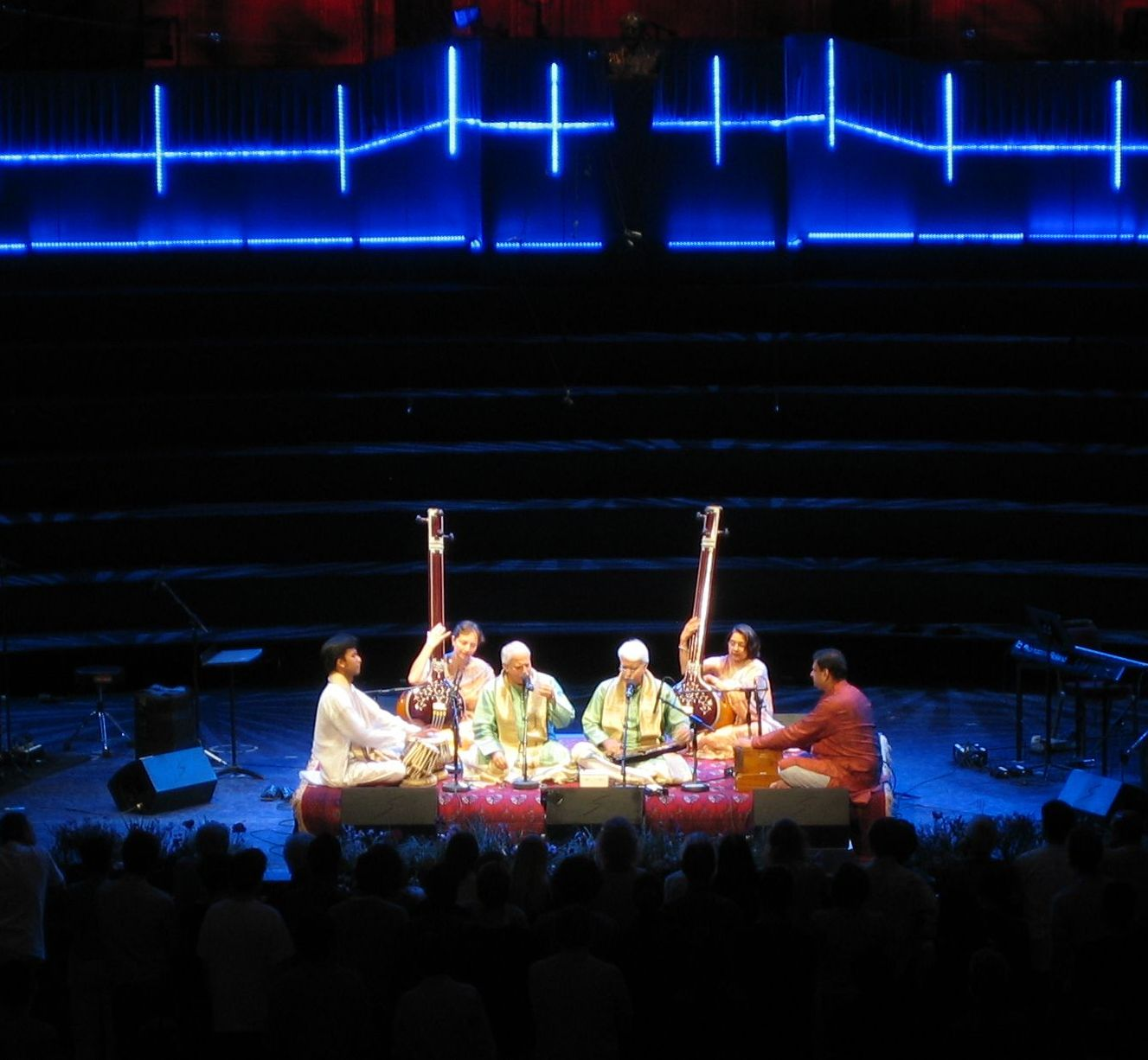 Rajan and Sajan Mishra, khyal singers (centre), perform at the Royal Albert Hall